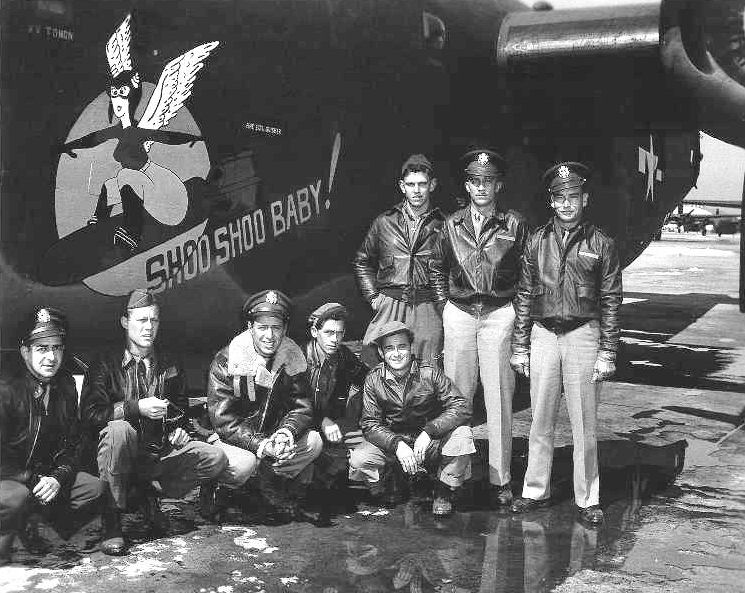 Flight crew in front of B-24 with "Shoo Shoo Baby!" nose art.